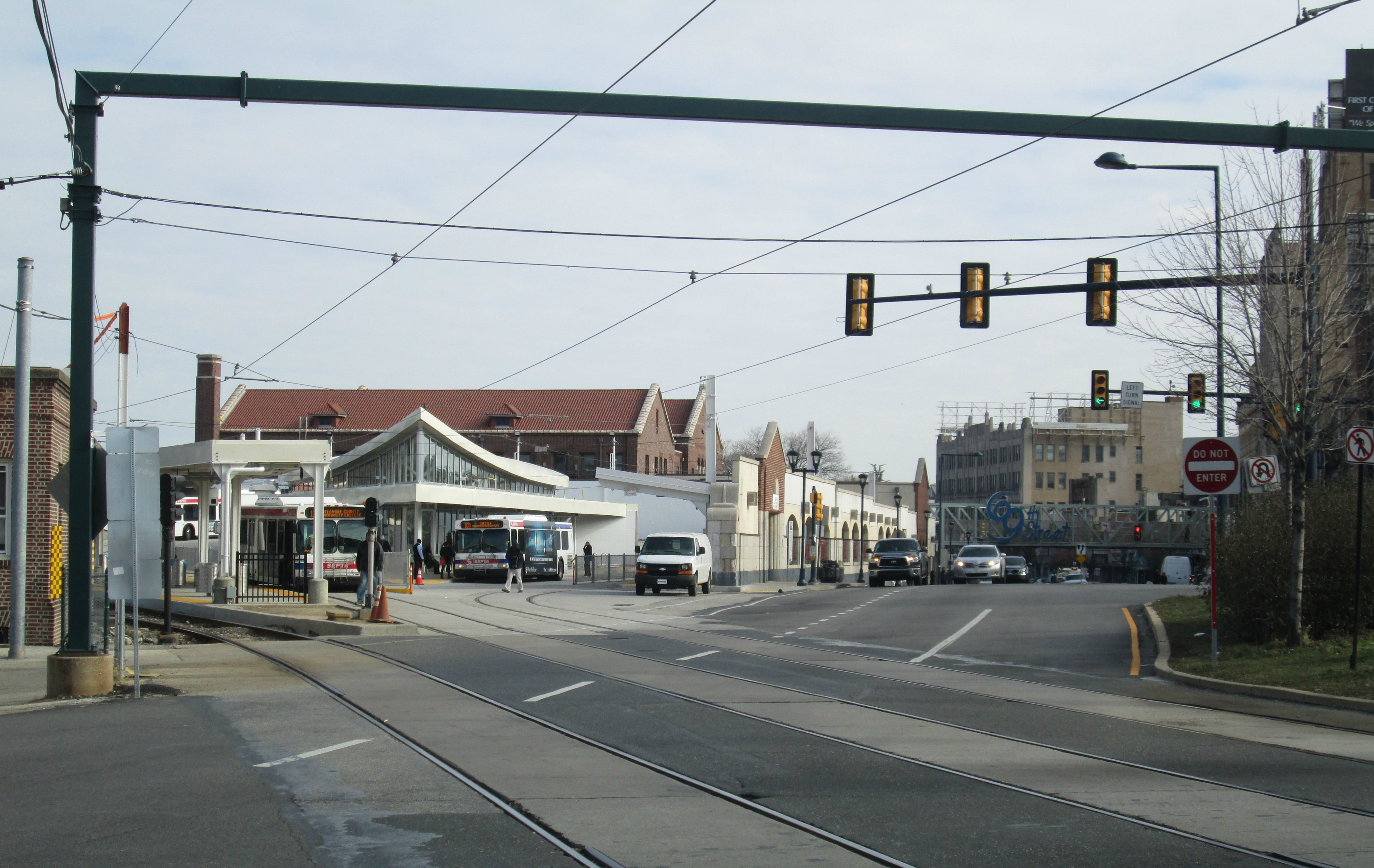 The renewed west terminal.